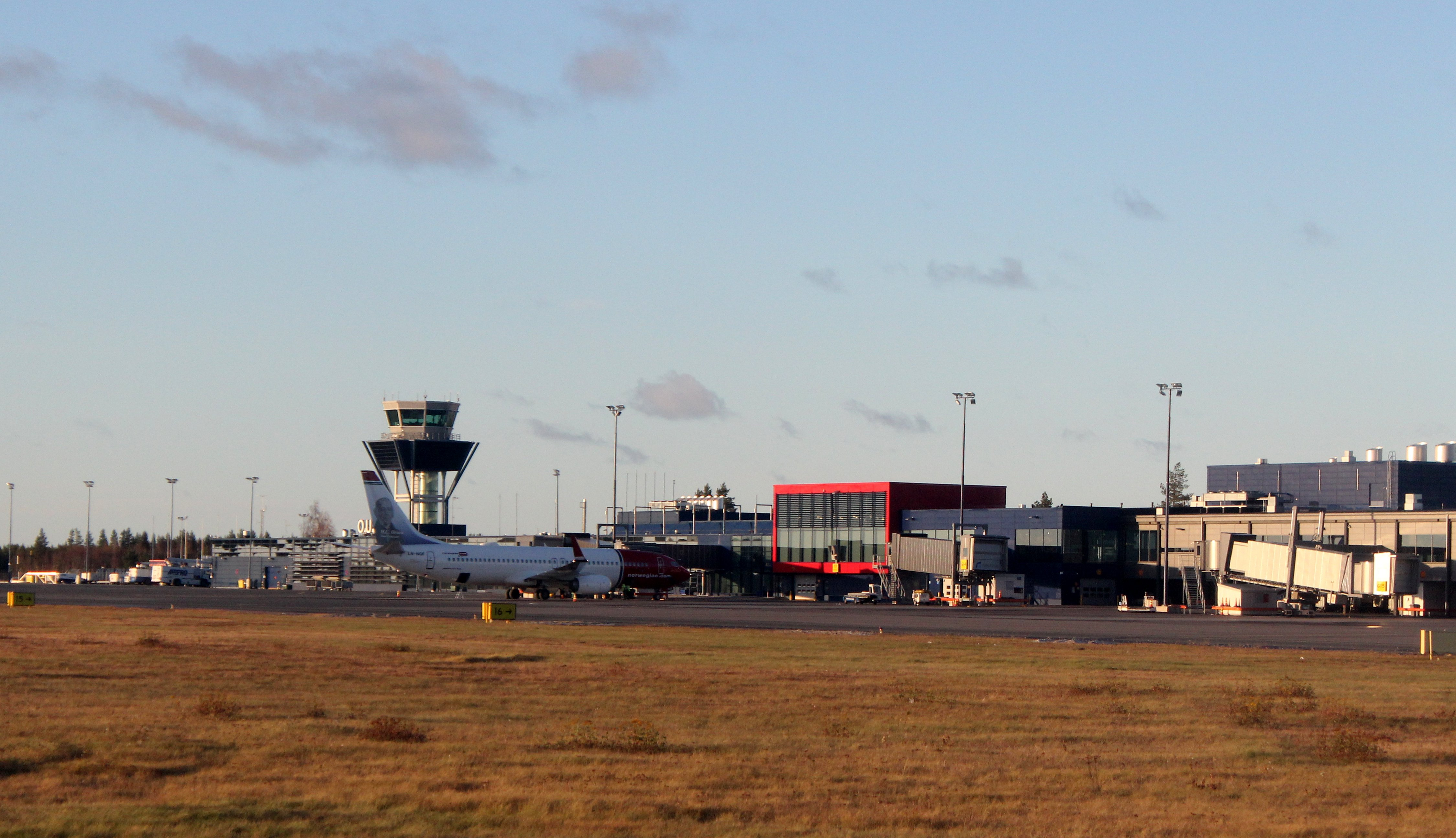 Oulu Airport Terminal.